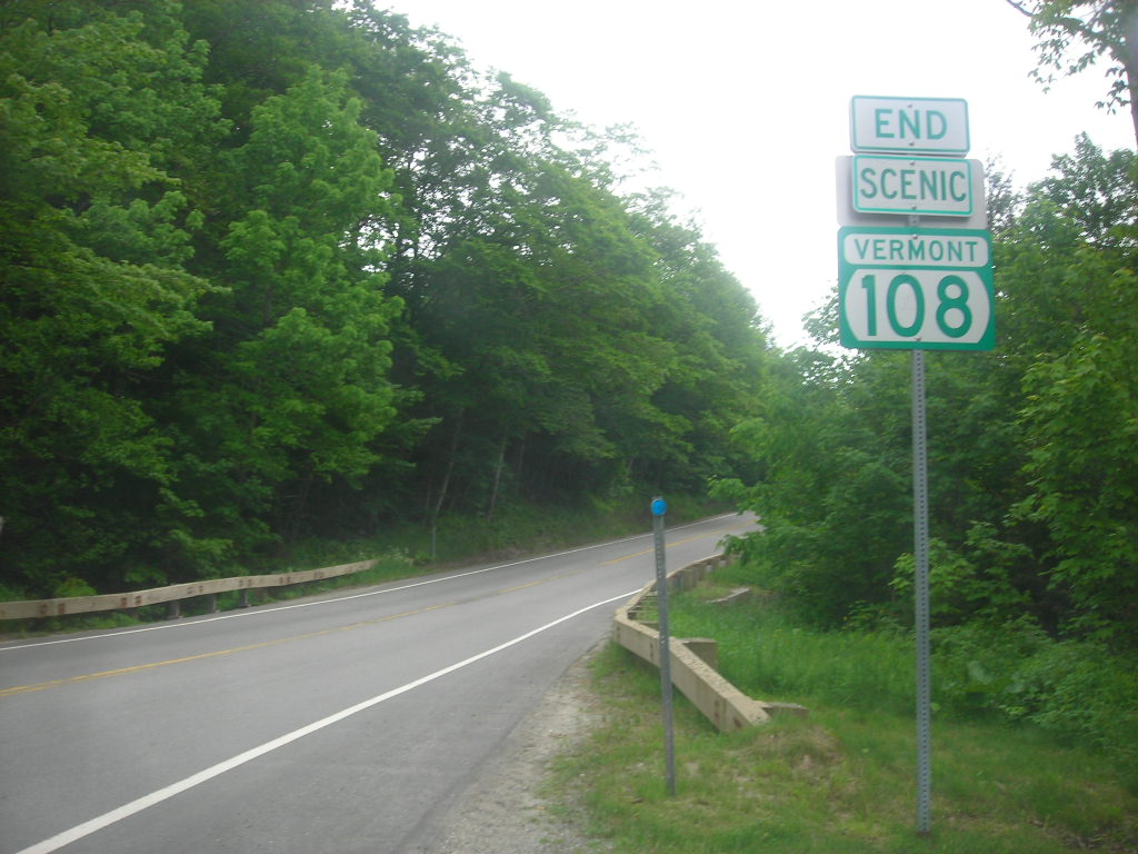 Sign depicting the end of Scenic VT 108.